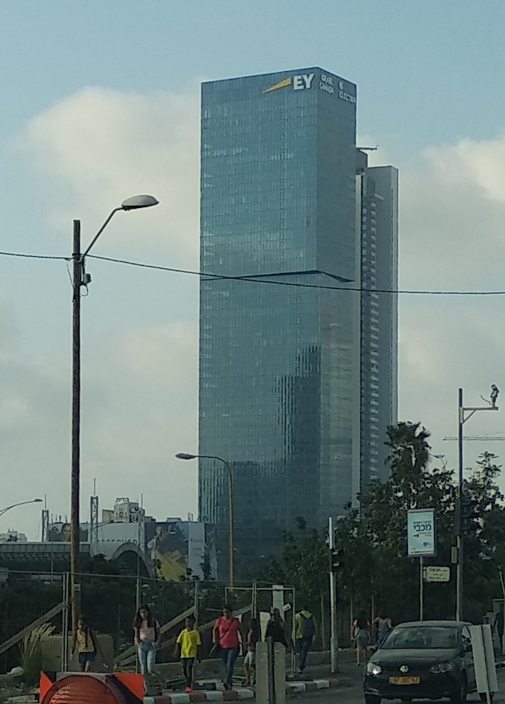 Ernst & Young offices at Midtown Tower, Tel Aviv